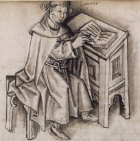 First page of ms. BNF Français 24210, showing a writer or scribe, on the first page of the Estoires d'outremer et de la naissance salehadin.